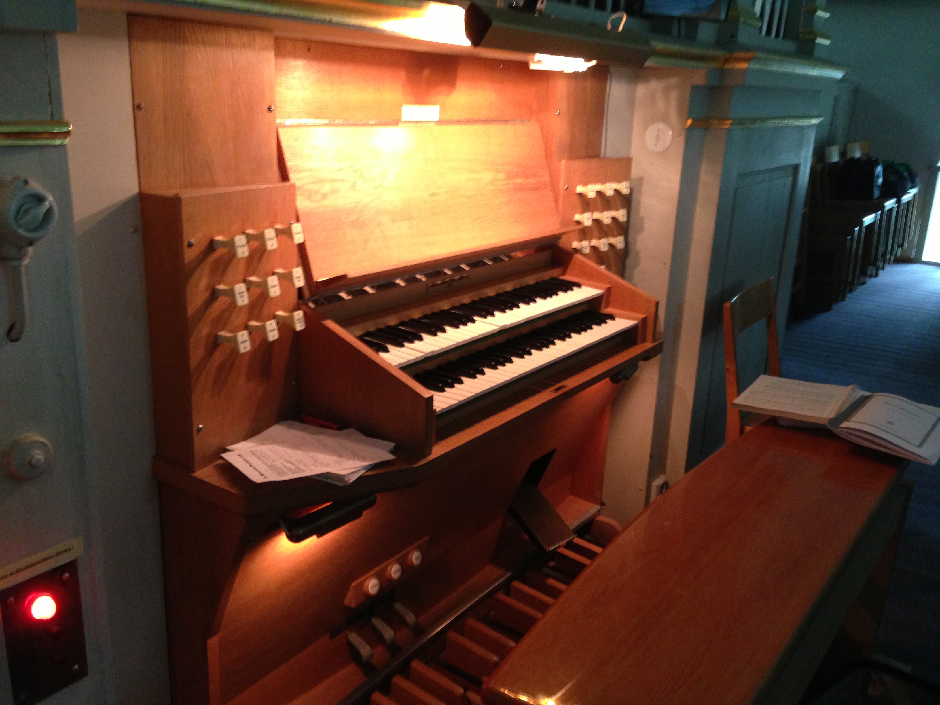 Organ in Algutsrums kyrka, Öland, Sweden